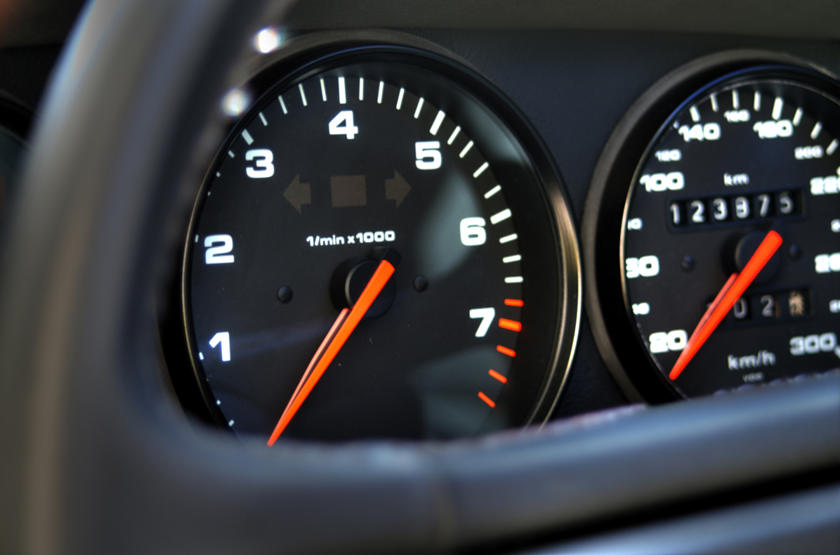 Tableau de bord - Porsche 964 Carrera 2 - 1991